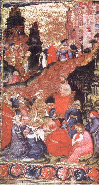 Chaucer reciting. Frontispiece of Troilus and Criseyde (Cambridge, Corpus Christi College, MS 61)